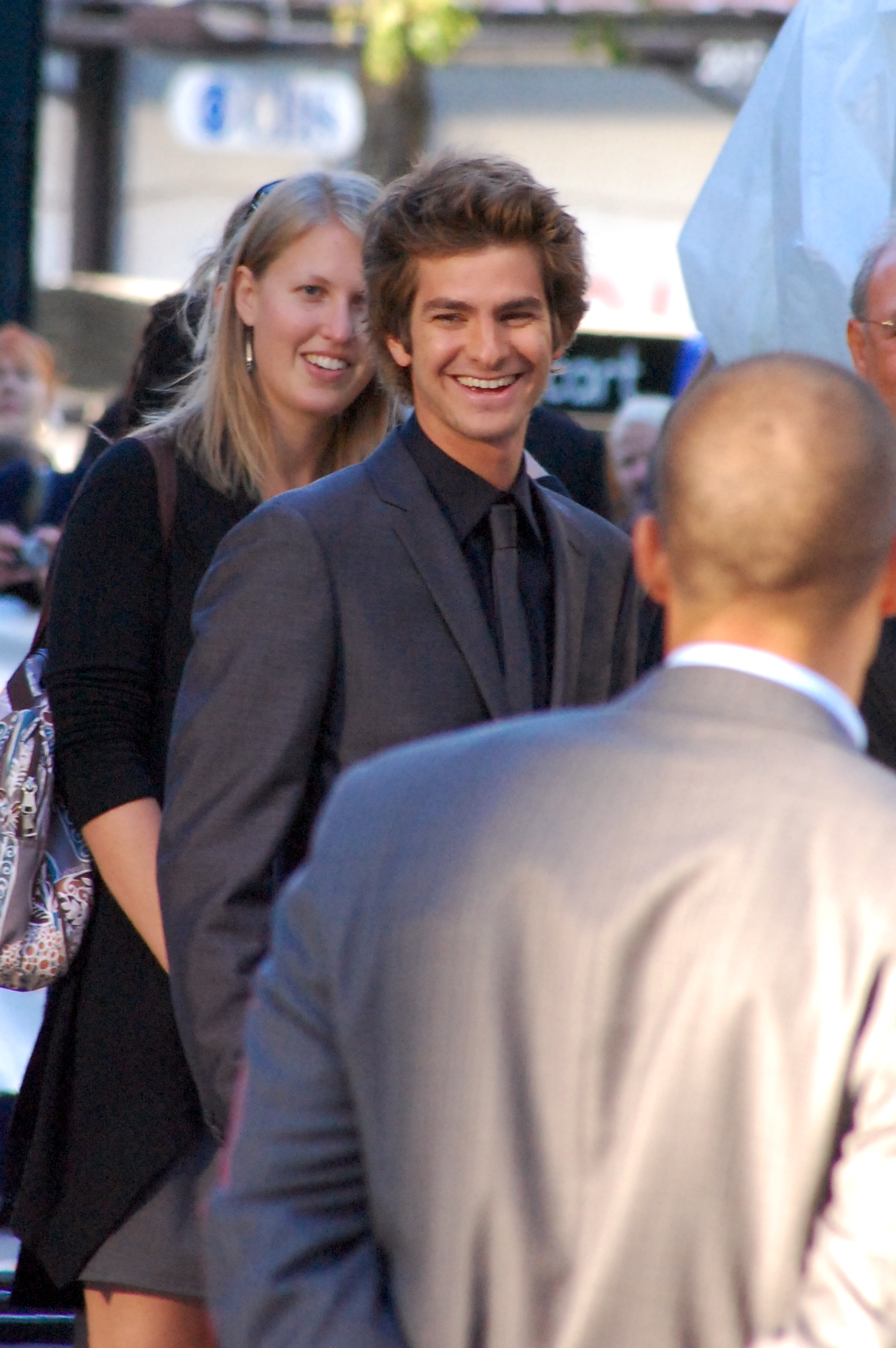 The following is the author's description of the photograph quoted directly from the photograph's Flickr page. "Imaginarium of Doctor Parnassus premiere - September 18, 2009 - Roy Thompson Hall "